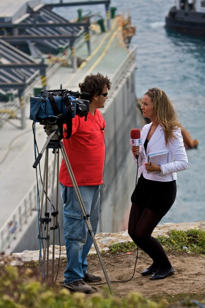 Spanish TV station Telecinco crew in Gibraltar, with M/V Fedra remains in the background. Fedra was a Liberian ship broken in half adjacent to the Europa Point lighthouse, Gibraltar, in 2008